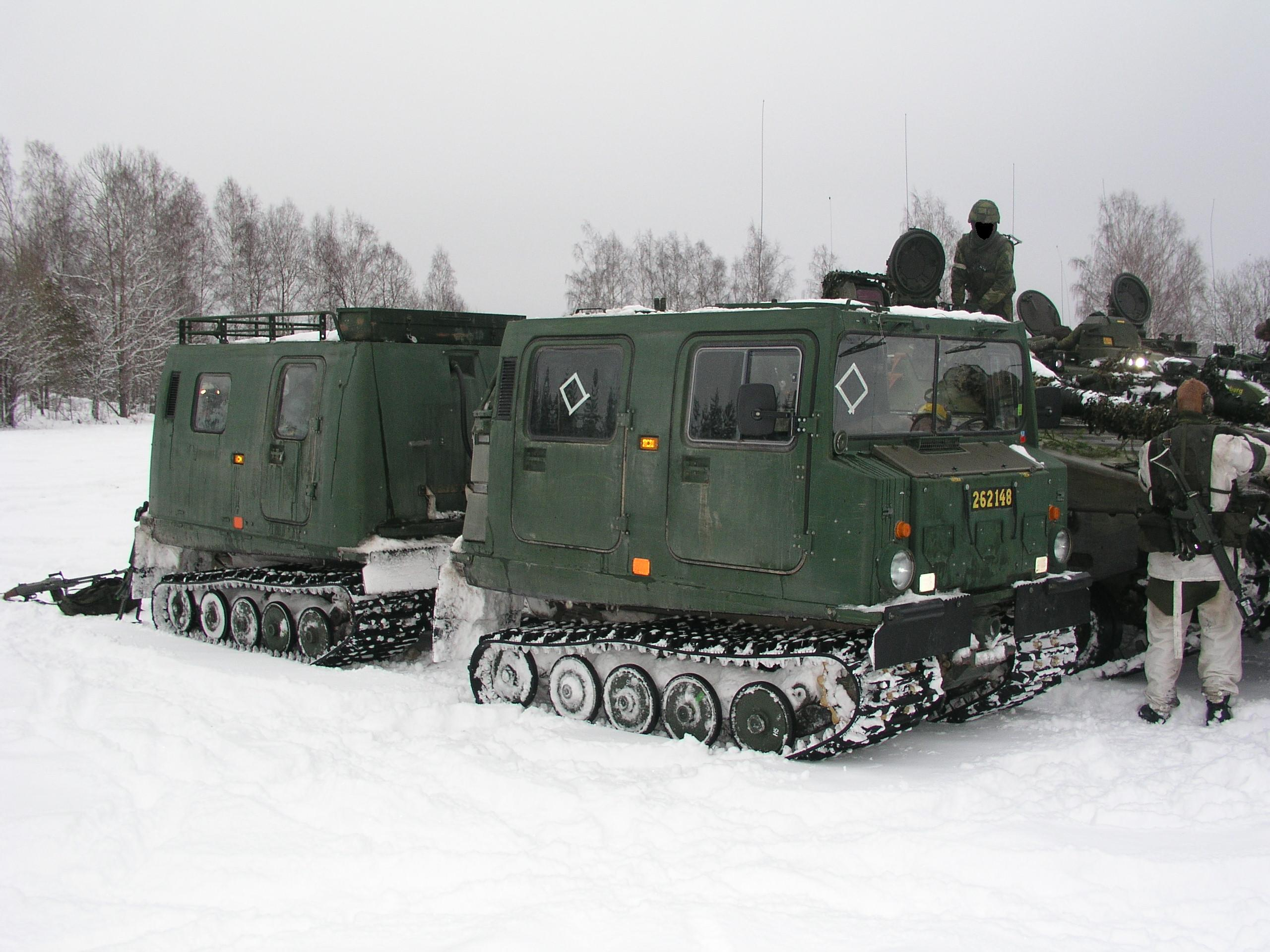 A Swedish BV 206. Photo taken by BS from P18 in 2005, and therefore free to use.